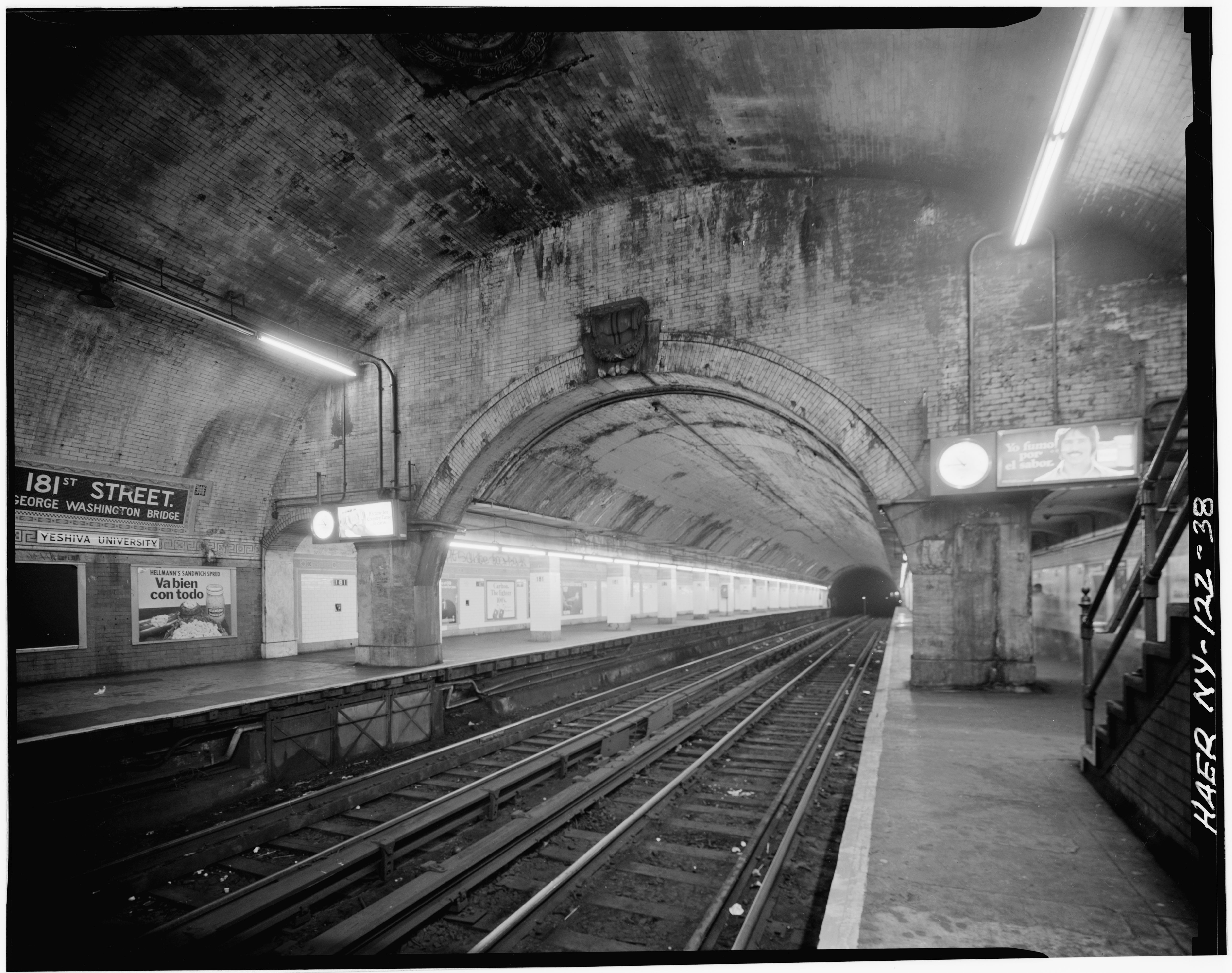 181st Street station on the IRT Broadway-Seventh Avenue Line.The northern end of the station shows wall treatment and platform extension for the use of ten-car trains.